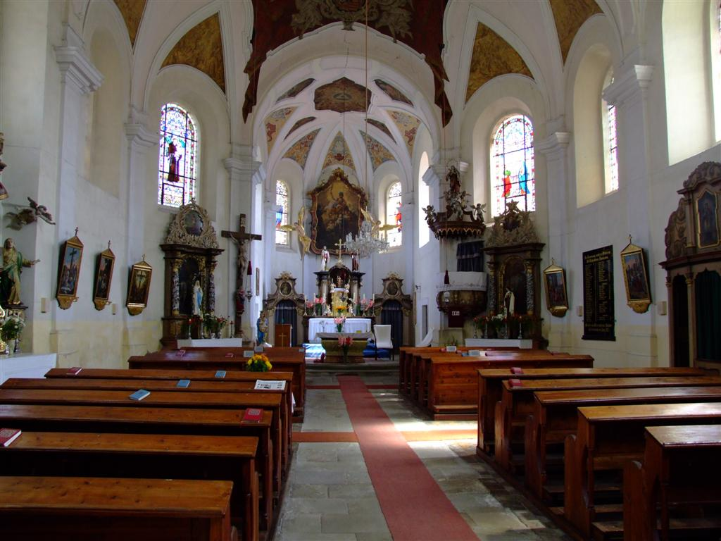 St.Georg's church in Cernošín inside with frescoes by Wenzel Samuel Theodor Schmidt